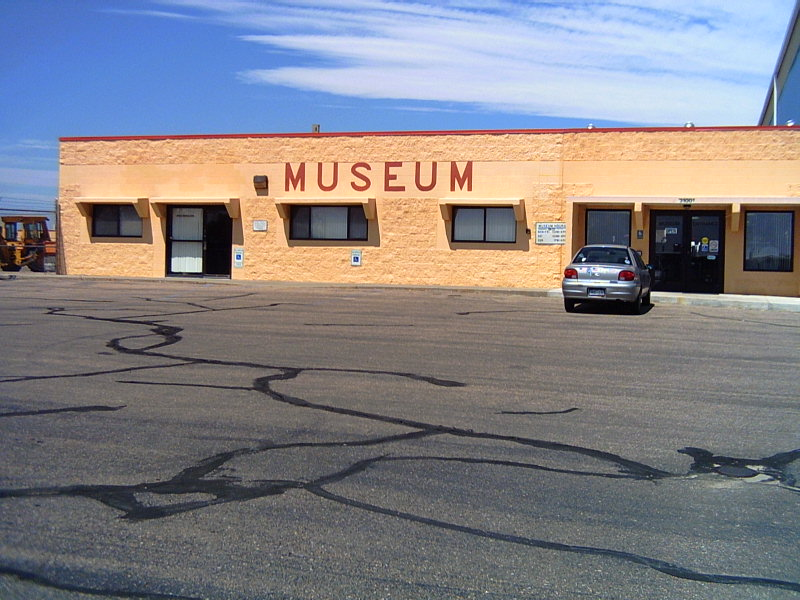 Pueblo Weisbrod Aircraft Museum front building sign, Pueblo Memorial Airport, Pueblo, CO, taken by Lance Barber, 2007, for Wikipedia public domain.